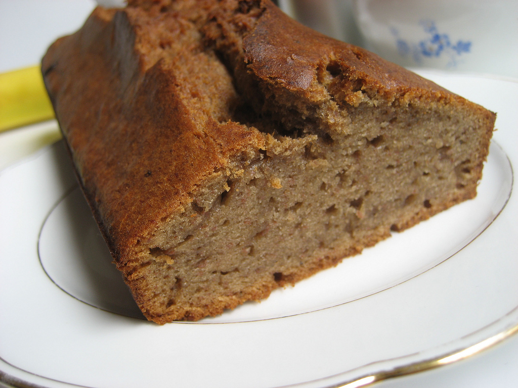 Banana bread loaf on a plate.